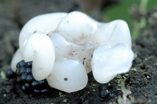 Oviducts of amphibians regurgitated by predators such as martens or raptors from Commanster, Belgium. The determination of the species shown in this picture has been verified.